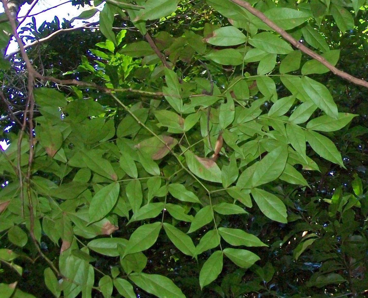 Archidendron hendersonii, Coffs Harbour Botanic Gardens, Australia